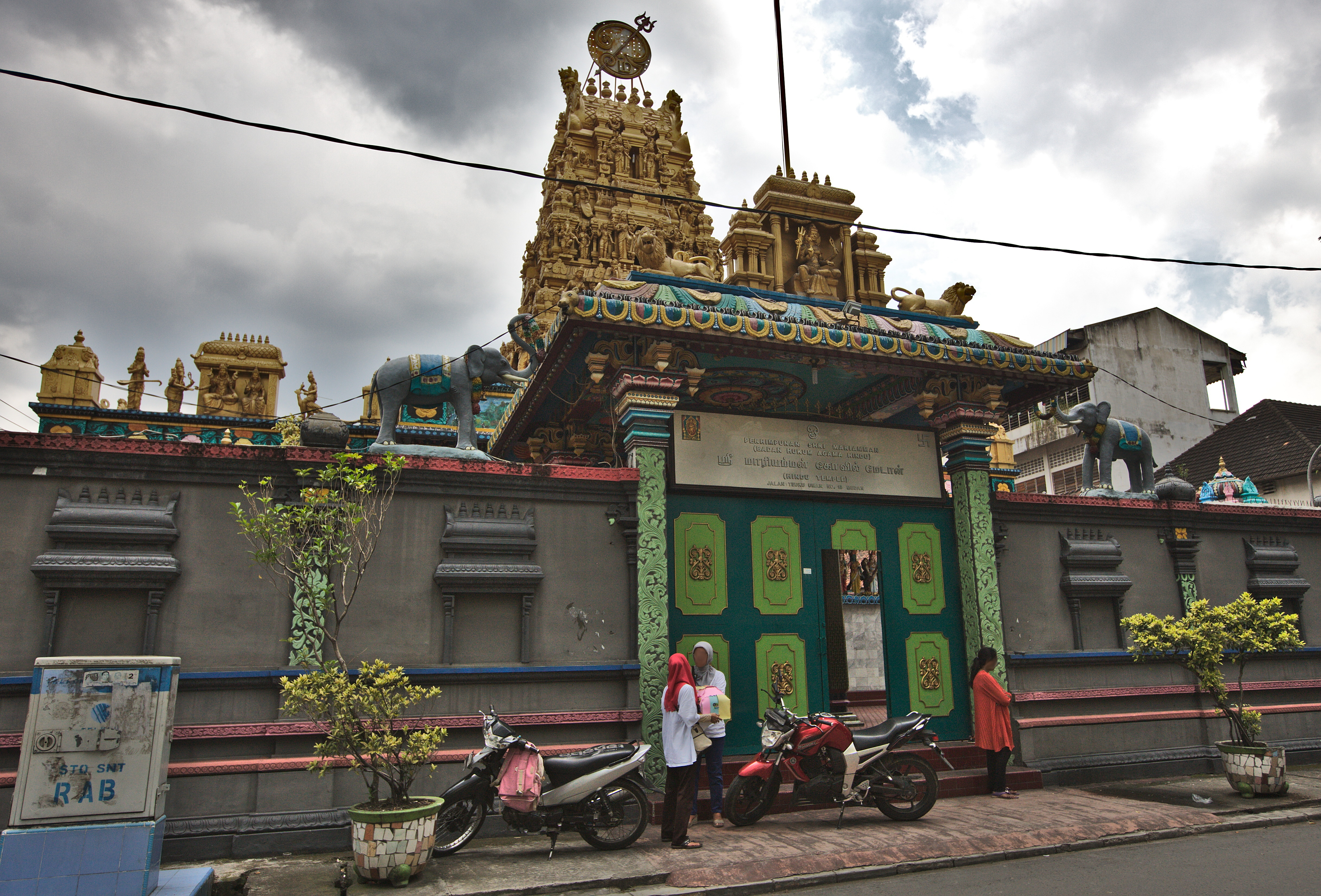 Street view of the entrance to Perhimpunan Shri Mariamman (Badan Hukum Agama Hindu) or "Hindu Temple" is a Tamil Indian temple at #18 Jalan Teuku Umar, Medan, North Sumatra, Sumatra, Indonesia.